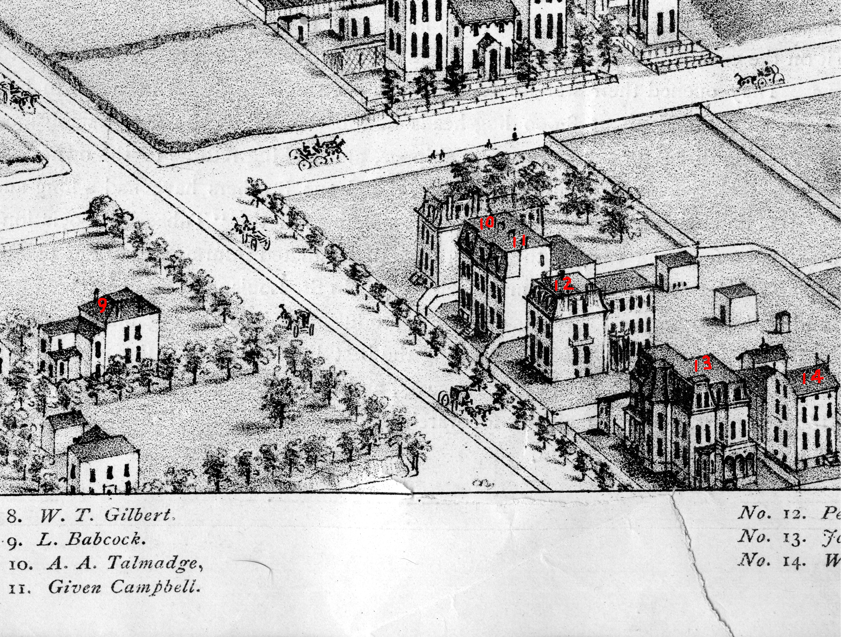 Given Campbell's house on Laffaette Street near Jefferson Ave- Scanned from the 1876 book Pictorial Saint Louis. Added the red numbering (originally white and difficult to read).